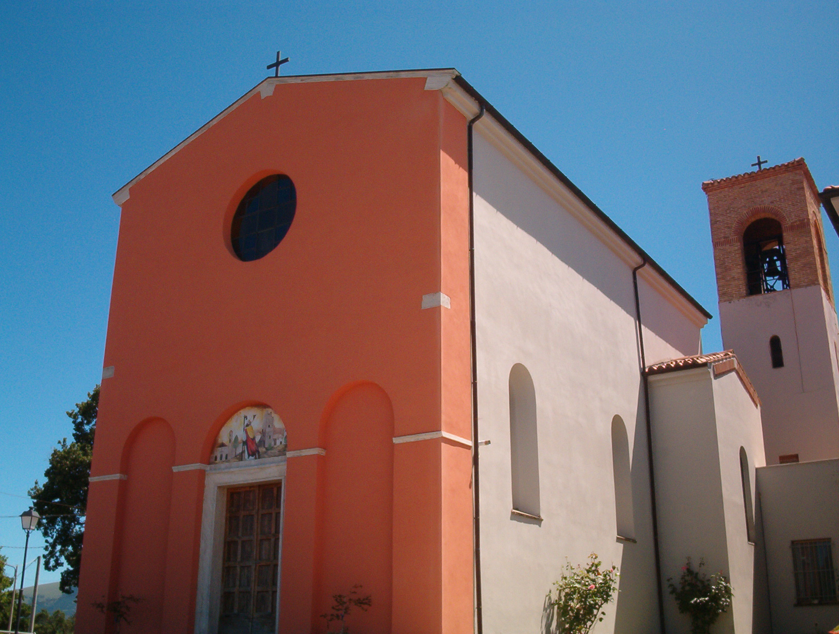 Saint Ercolano's Church in Poggio Sant'Ercolano, Gualdo Tadino, PG, Italy